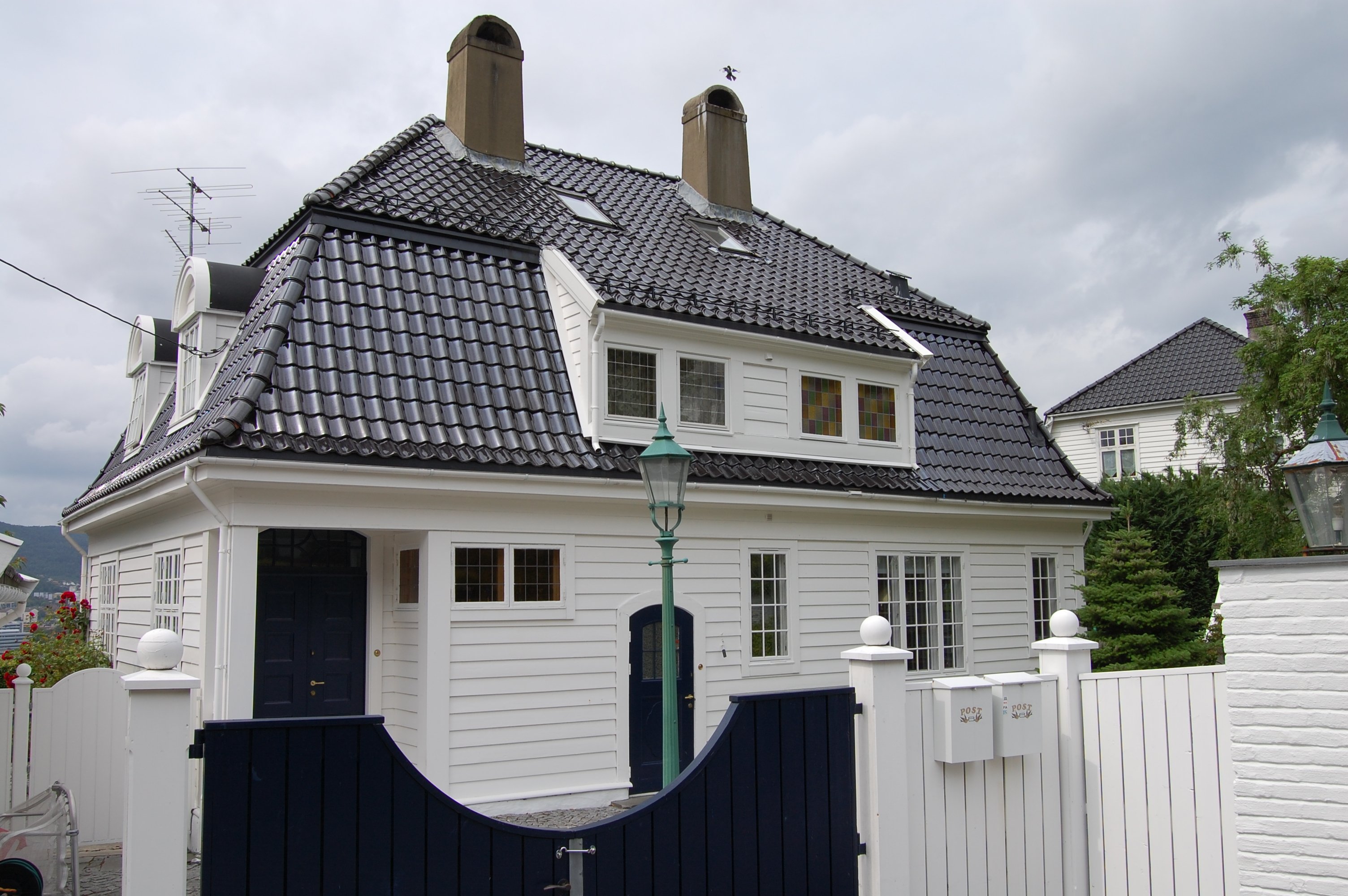 Architect Ole Landmark and Georg Greve, villa in Blaauws vei 9, Bergen, Norway. Built in 1911 for J. Fleischer.